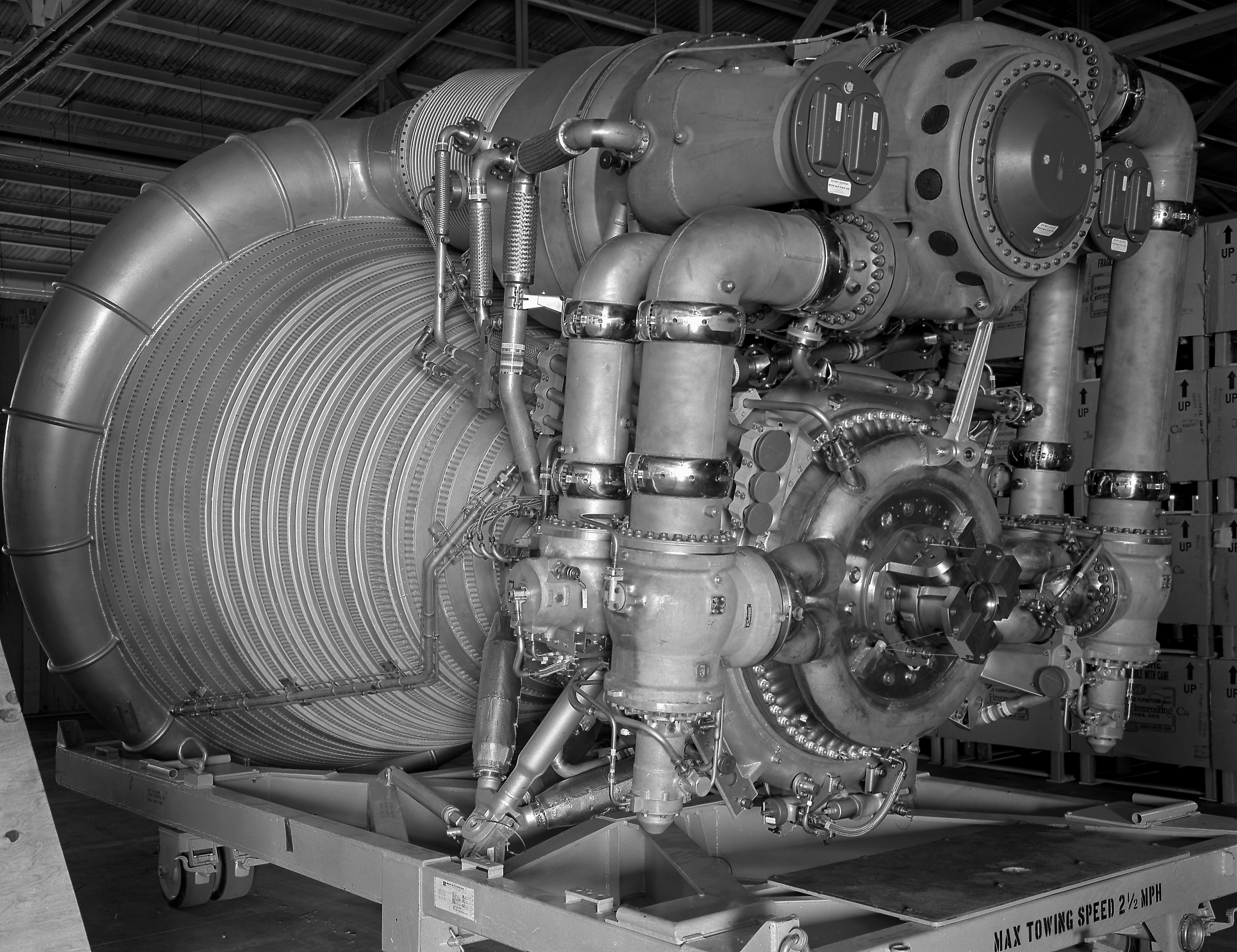 A close-up view of the F-1 Engine for the Saturn V S-IC (first) stage depicts the complexity of the engine. Developed by Rocketdyne under the direction of the Marshall Space Flight Center, the F-1 engine was utilized in a cluster of five engines to propel the Saturn V's first stage, the S-IC. Liquid oxygen and kerosene were used as its propellant. Initially rated at 1,500,000 pounds of thrust, the engine was later uprated to 1,522,000 pounds of thrust after the third Saturn V launch (Apollo 8, the first marned Saturn V mission) in December 1968. The cluster of five F-1 engines burned over 15 tons of propellant per second, during its two and one-half minutes of operation, to take the vehicle to a height of about 36 miles and to a speed of about 6,000 miles per hour.